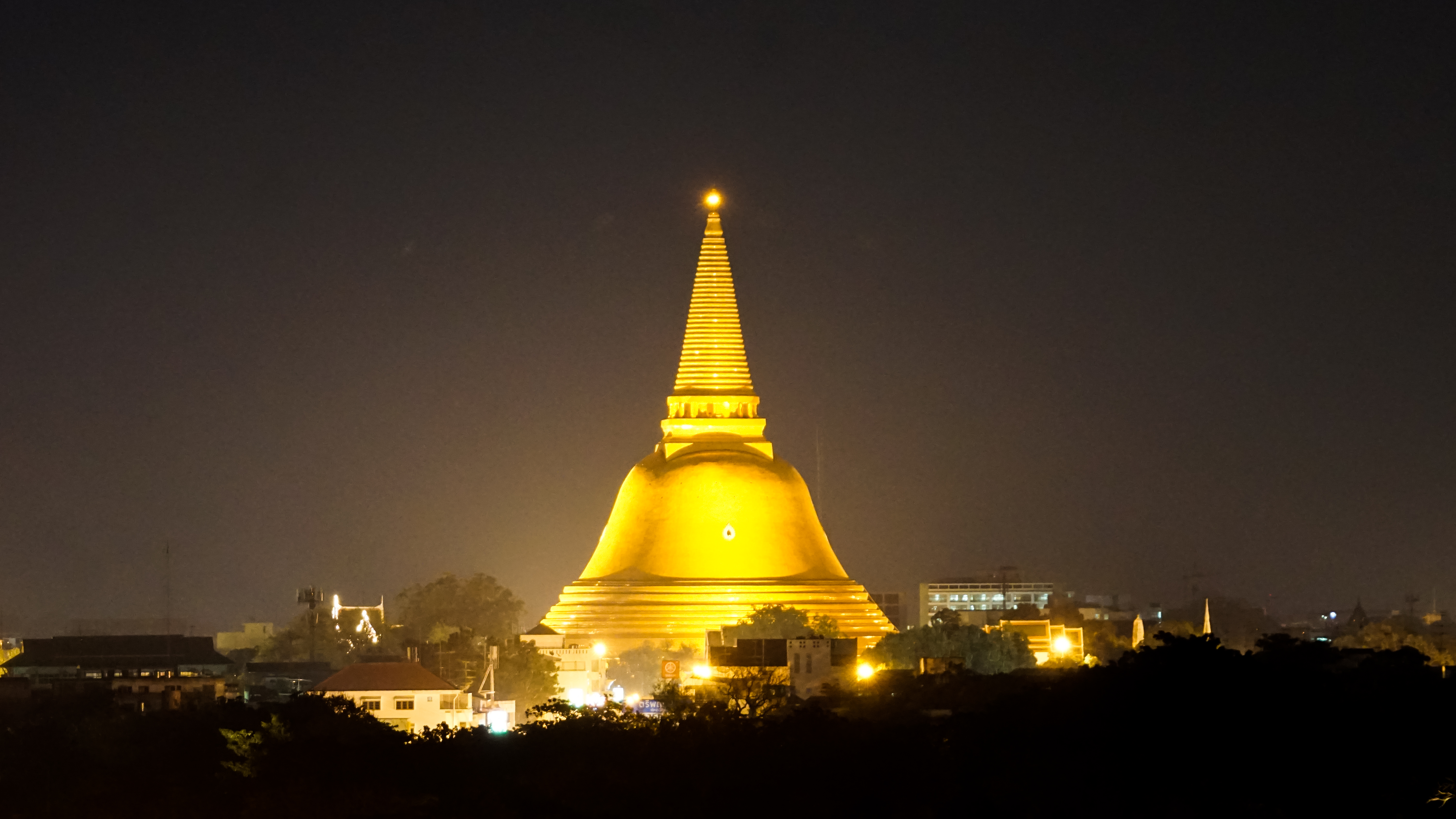 Phra Pathommachedi during night 2015